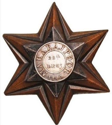 Gwalior Star for Battle of Maharajpoor, obverse. 1843